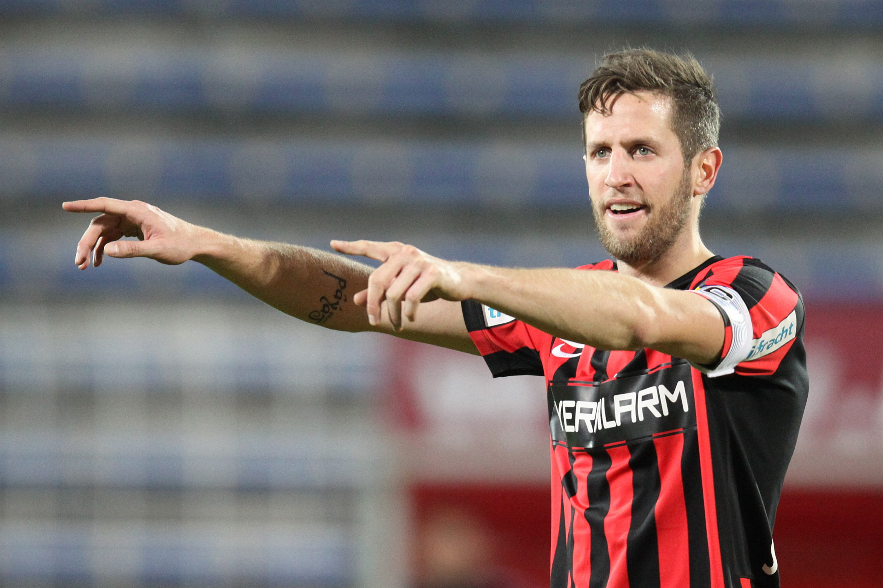 Match of the Austrian Football Bundesliga – FC Admira Wacker Mödling (red shirts) vs. SK Rapid Wien (white shirts) 2-1 (0-1) on 2015-12-02 in Bundesstadion Sudstadt – The photo shows Christoph Schösswendter.